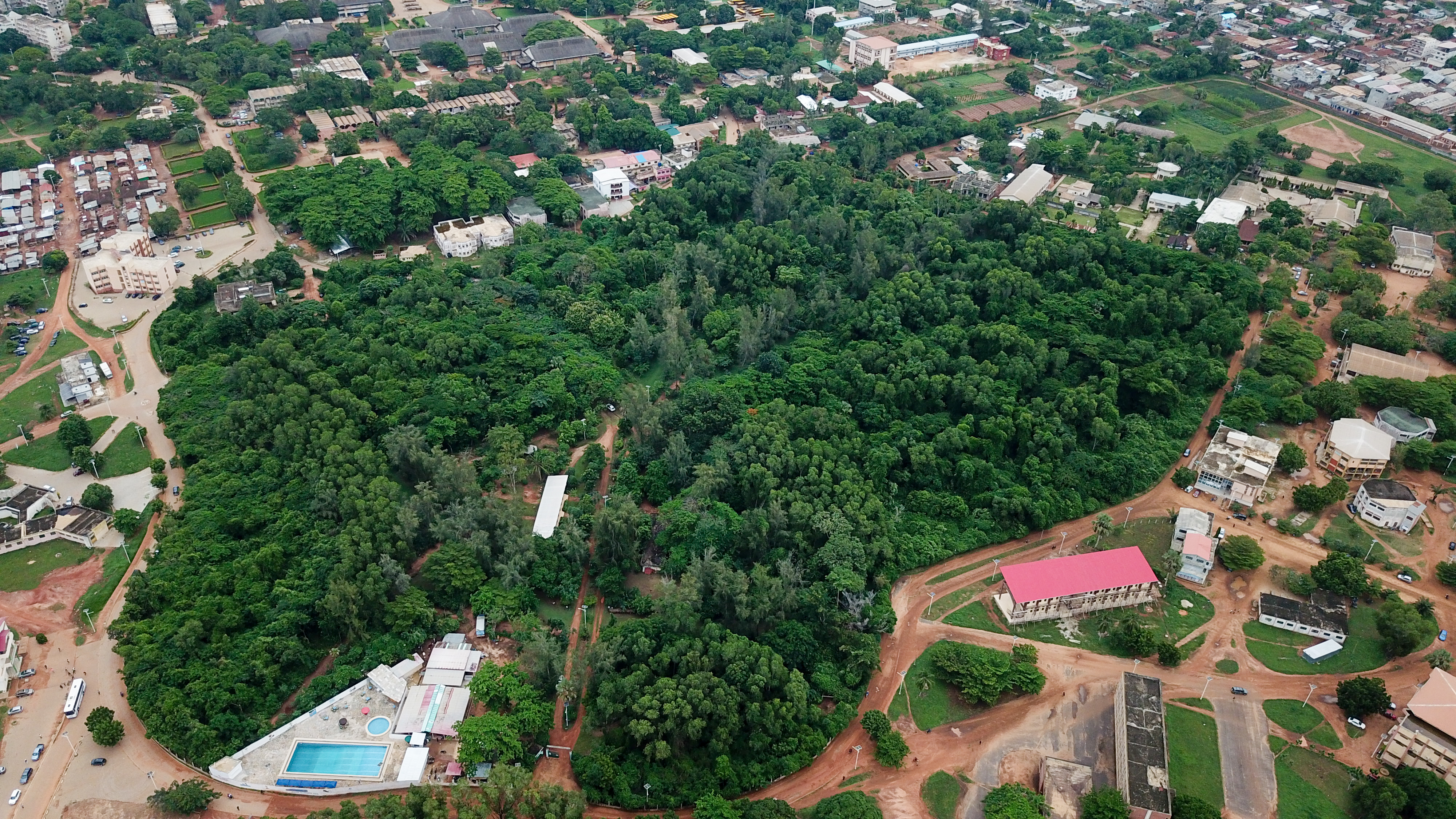 Botanical and zoological garden of the University of Abomey-Calavi (Located in the heart of the University of Abomey-Calavi, it was created in 1970 by the emeritus Edouard ADJANOHOUN)